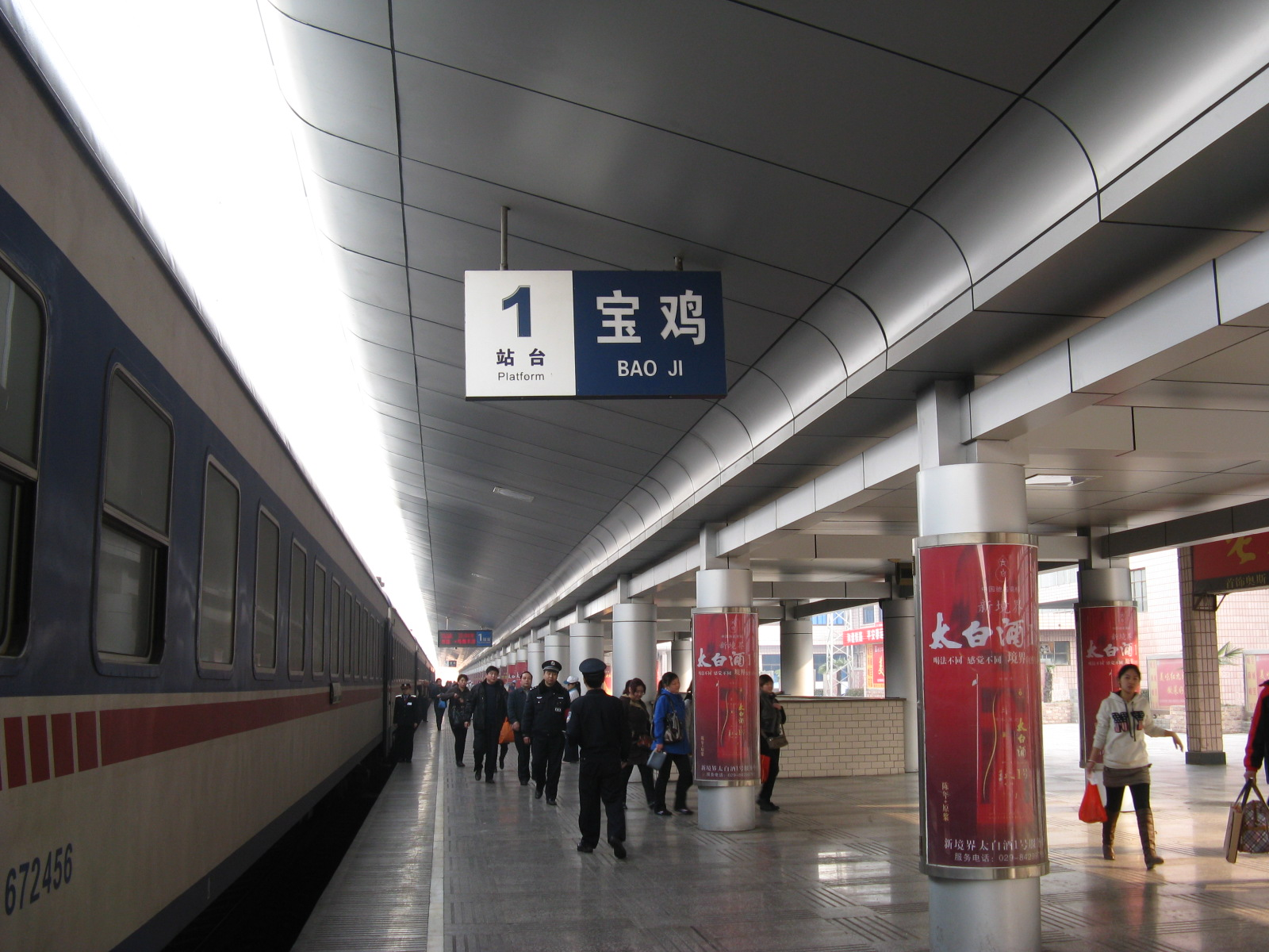 Baoji Railway Station Platform